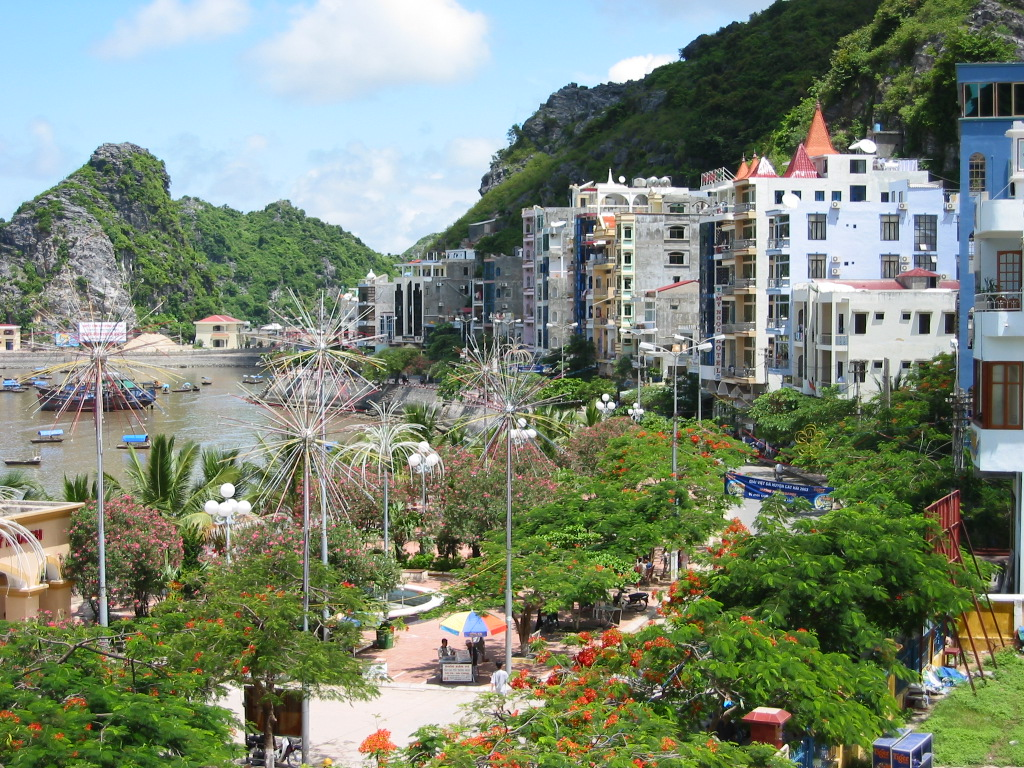 Cat Ba town, Vietnam.